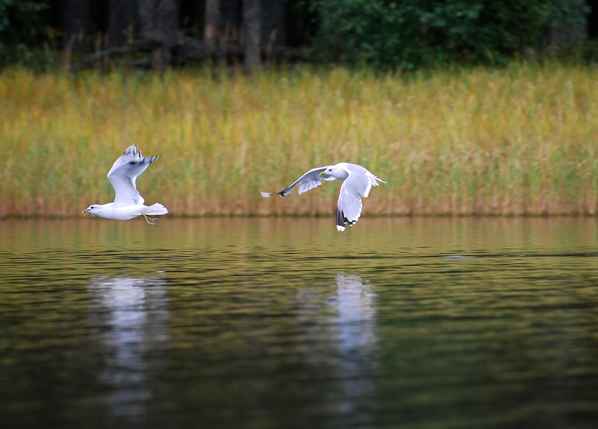 Caspian Gulls Larus cachinnans, Kaftino, Tverskaya Oblast, Russia